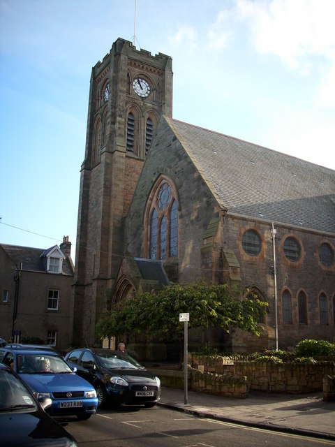 St. Andrew Blackadder Church, North Berwick The present church is the latest in a long line of churches, in the town, dedicated to St. Andrew, stretching back, at least, to the late 12th. century. The church was formerly part of the Free, then United Free, Kirk but is now part of the congregation of the Church of Scotland. The Blackadder refers to the Reverend John Blackadder, minister of Troqueer Church in Dumfries, who was forced in out to the fields and hills to preach. He opposed the introduction of a new prayer books being forced upon the people of Scotland by the Stuart kings in London. John was later outlawed, 'tried' and imprisoned on the Bass Rock where he died in December 1685, a martyr to the Established faith in Scotland. He was a member of the eminent Blackadder of Tulliallan family and later inherited the title, Baronet of Tulliallan, a title he never used. The Blackadders hailed, originally, from Berwicksire from where they assumed their name. John Blackadder was interred at St. Andrew's kirkyard in Kirk Potts in the town on a cold and bleak December day, a bleak day for Scotland amidst the Covenanting Wars - 'The Killing Times'. John Blackadder is very high up on my own top ten of greatest Scots and he surely was moulded in the form of a Christian hero.